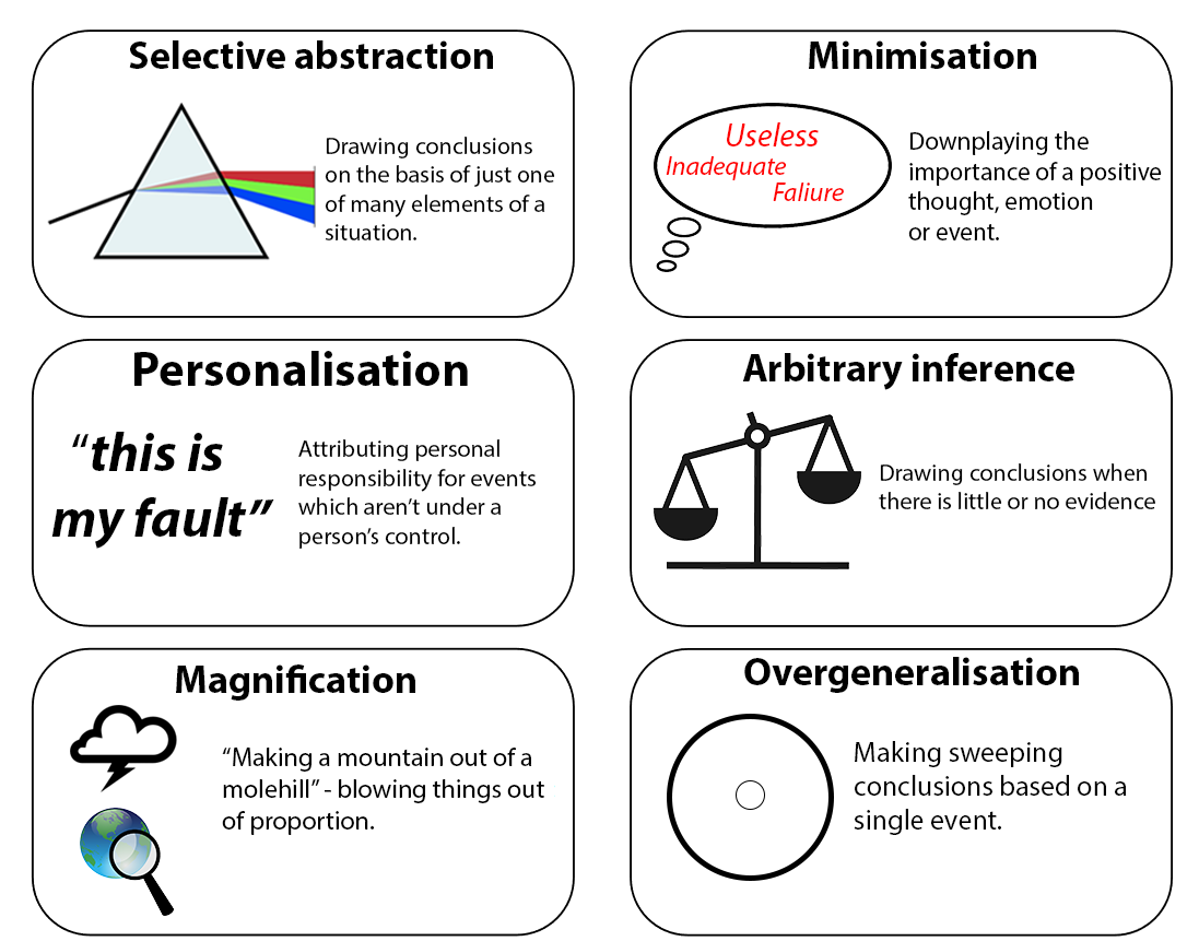 Explanations of common cognitive biases, or unhelpful thinking styles. These are styles of thinking common in people with mood disorders and other psychological disorders. These biases are targeted in Cognitive Behavioural Therapy, and are an important part of cognitive theories of depression.